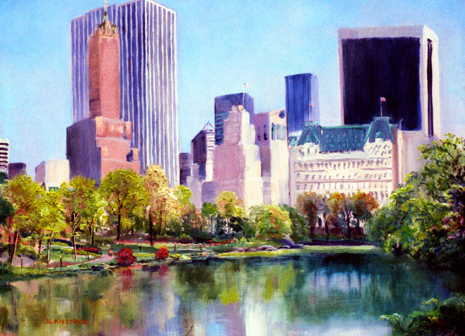 "New York, from Central Park", Andrei Kushnir